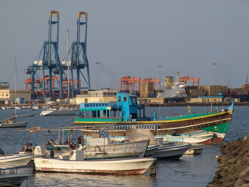 Djibouti port- fishing boat in front of container terminal